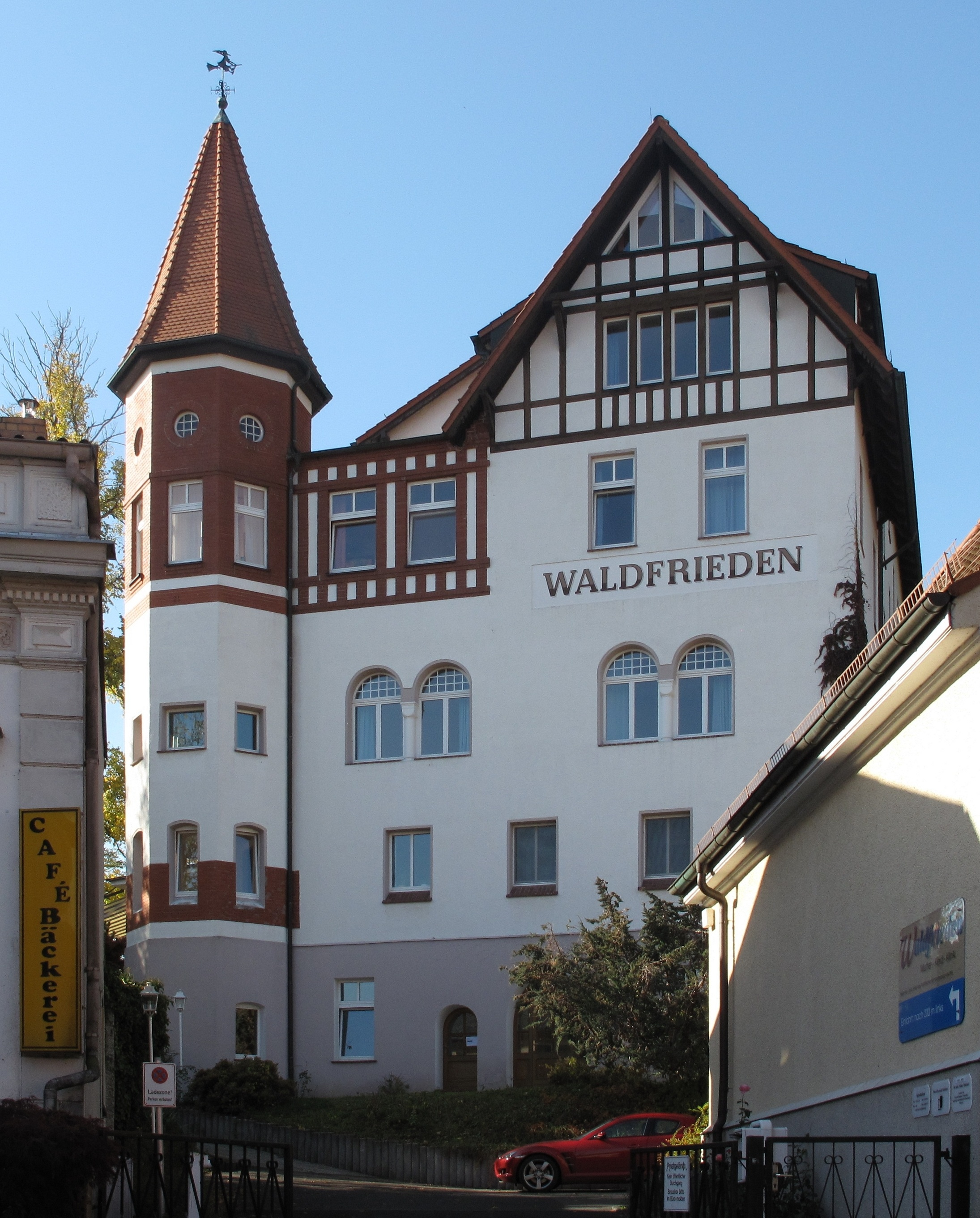 Reha-Klinik „Waldfrieden“ für Mutter und Kind (german for: Physical medicine and rehabilitation-clinic „Woodpeace“ for mother and child) in Buckow, District Märkisch-Oderland, Brandenburg, Germany. The clinic is situated above the northern shore of the Buckowsee.